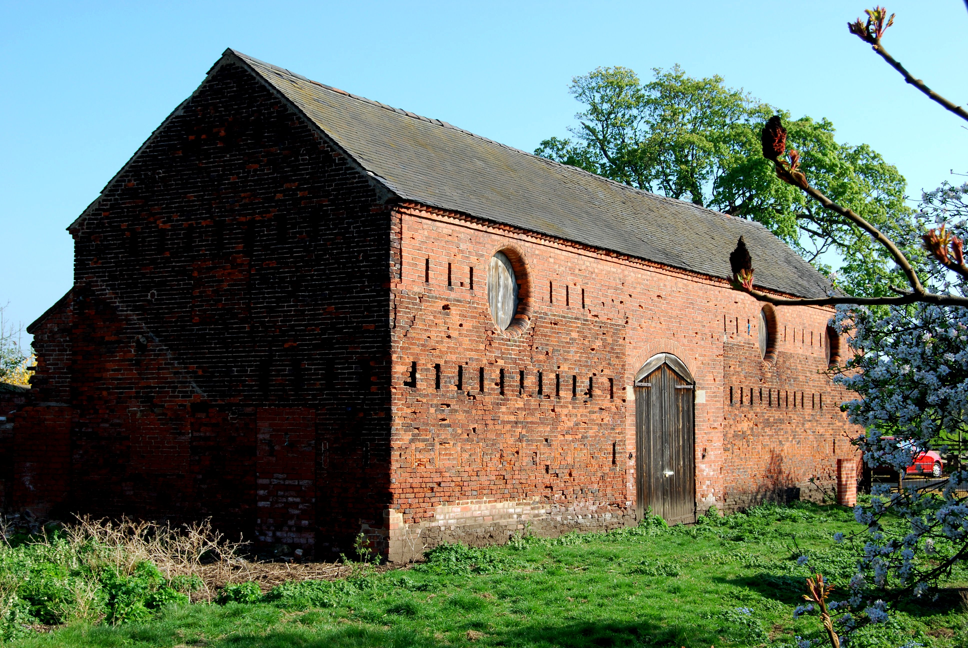 Old Barn Shardlow, Derbyshire